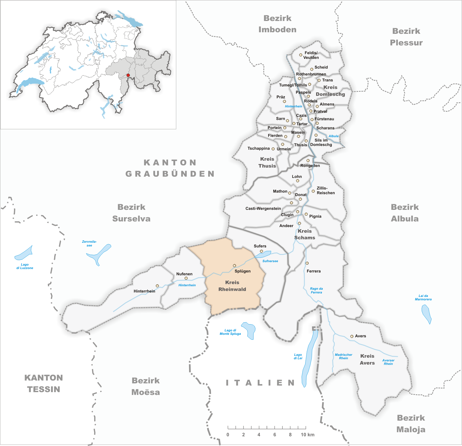 Municipality Splügen